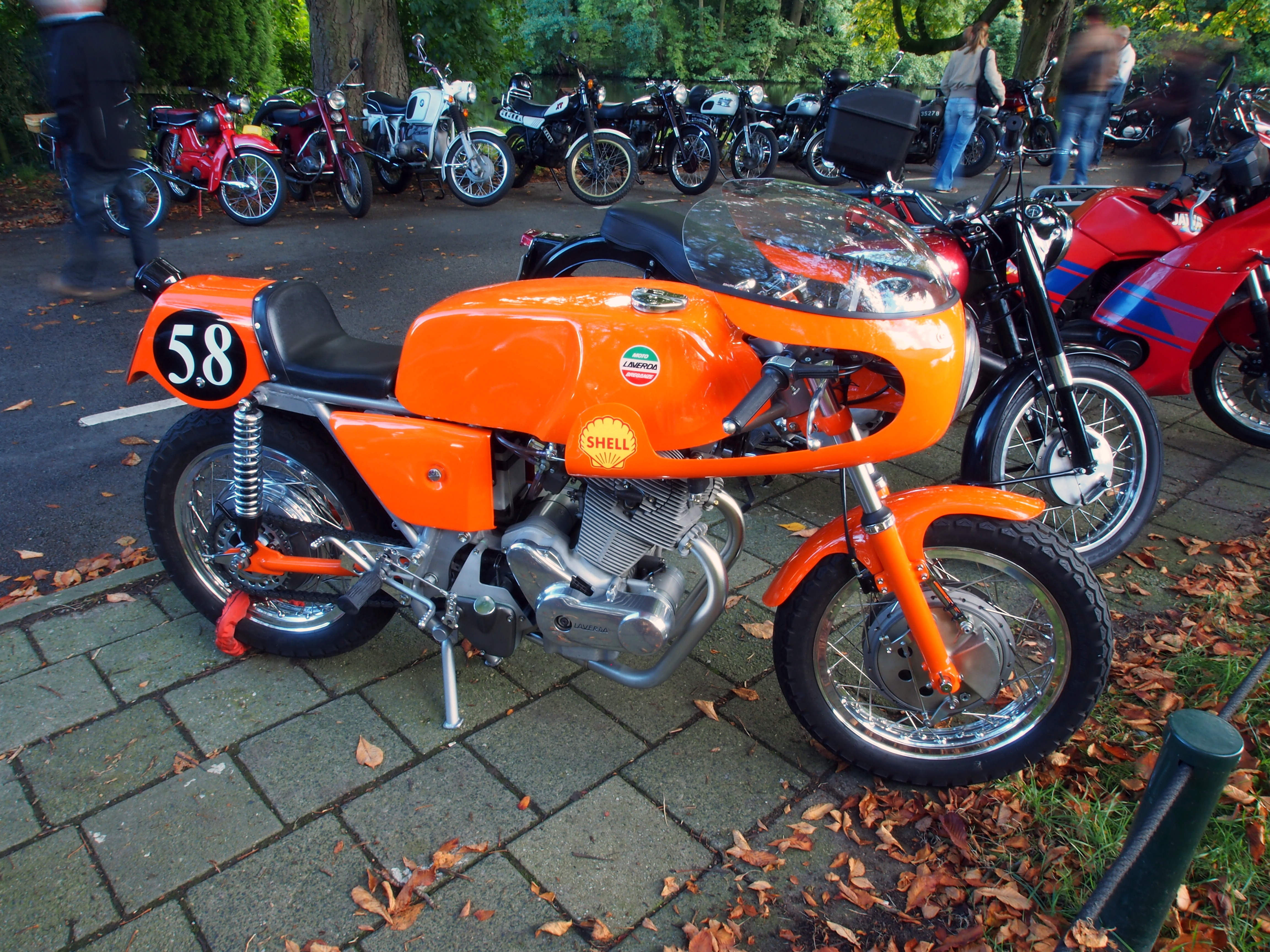 1972 Laverda 750 SFC from the 11,000 lot of the first series, with Ceriani front brake.